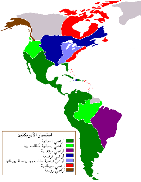 Map of European colonization of the Americas in 1750 Source file: Based upon Image:Spanish colonization of the Americas.png by Satesclop